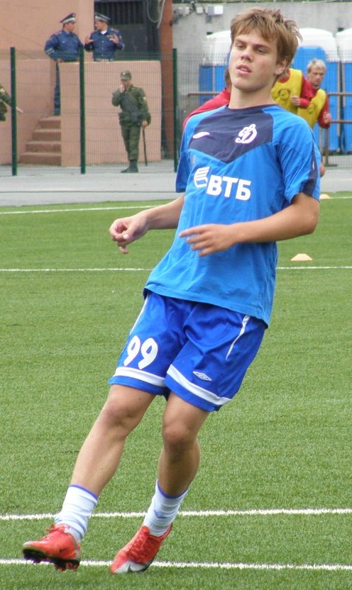 Alexandr Kokorin warming up for FC Dinamo Moscow